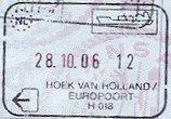 Passport stamp Europoort, The Netherlands.